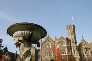 Taken by the contributor 12-Nov-06